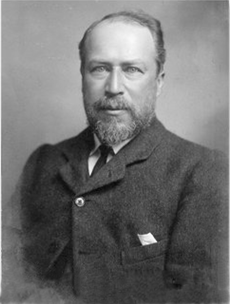 Charles Harford Lloyd (Thornbury, 16 October 1849 – Slough, 16 October 1919) was an English composer and organist.